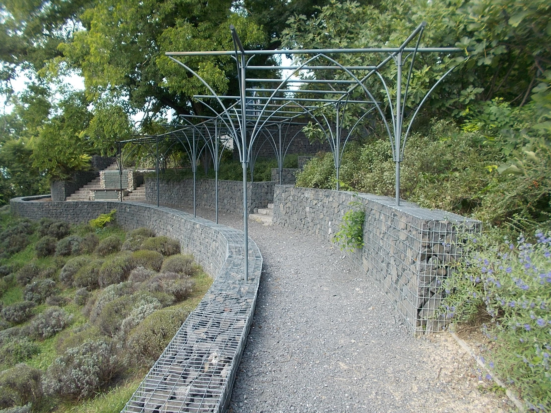 Walkway and retaining walls between Red and Blue Chapels on the Kápolna hill, now called it Szent Erzsébet Park [1], Balatonboglár, Somogy County, Hungary.